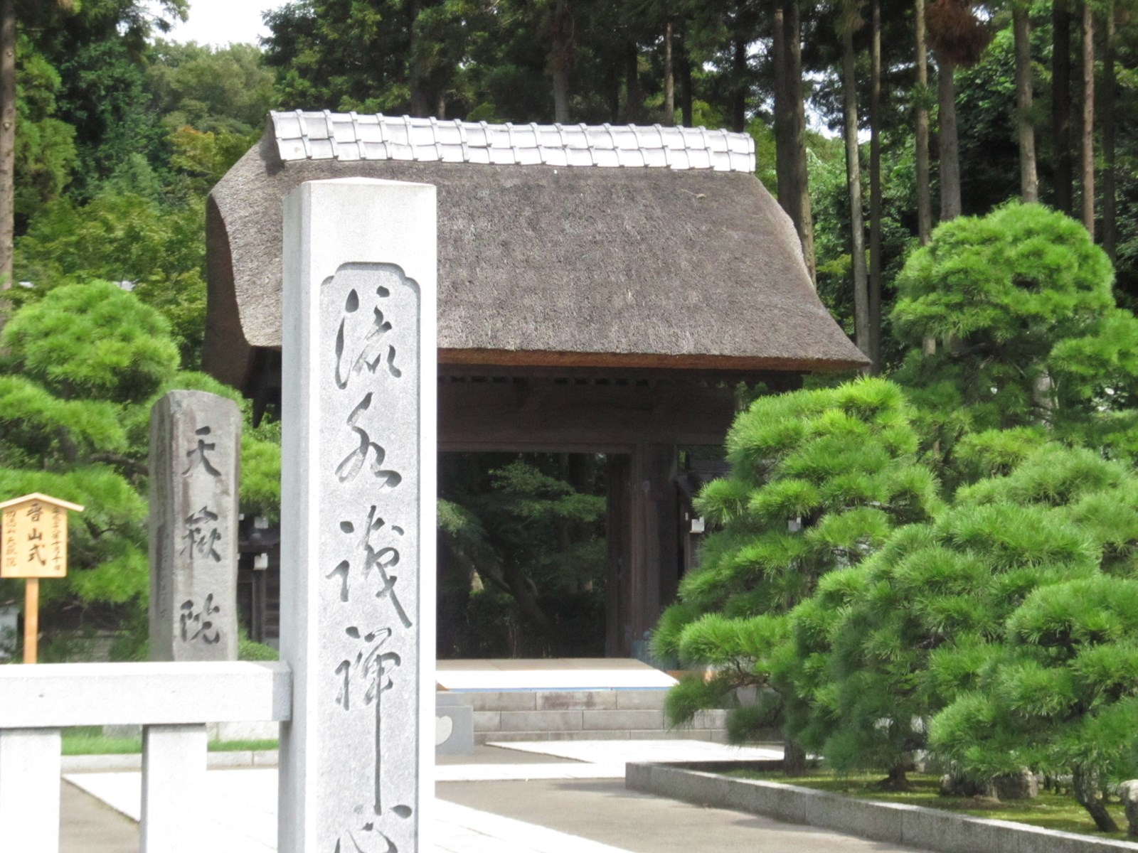 Sanmon at Tengaku-in in Fujisawa City, Kanagawa Prefecture, Japan